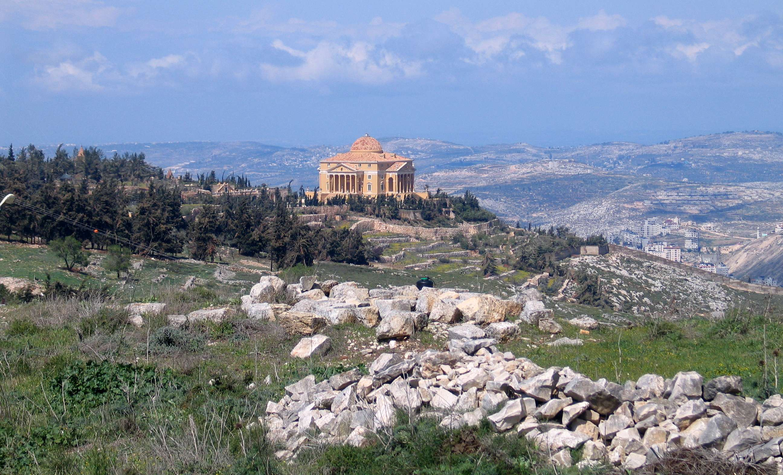 Mount Grizim.